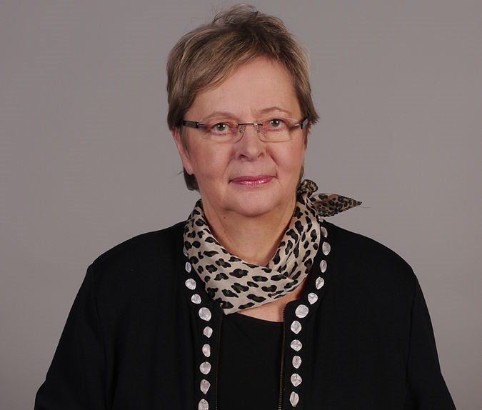 Photograph taken during Wiki Loves Parliament in february 2014 in European Parliament of Strasbourg.